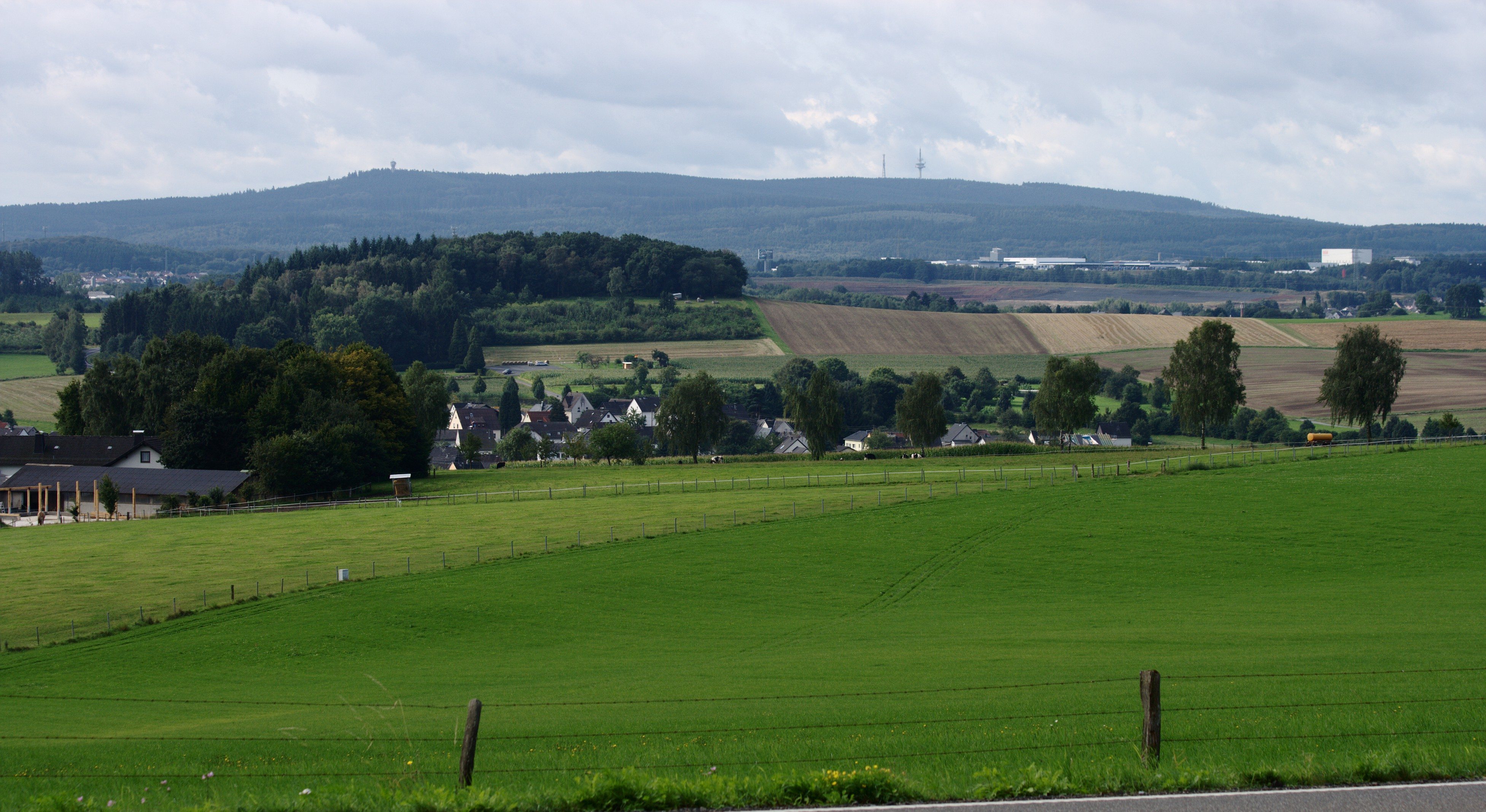 View from north to Montabaurer Höhe mountain range in Westerwald, Germany. On the left lookout tower "Köppel" and on the right two communication towers at Alarmstange mountain. Seen from near Vielbach village. In the foreground Vielbach and Lanzenberg hill.